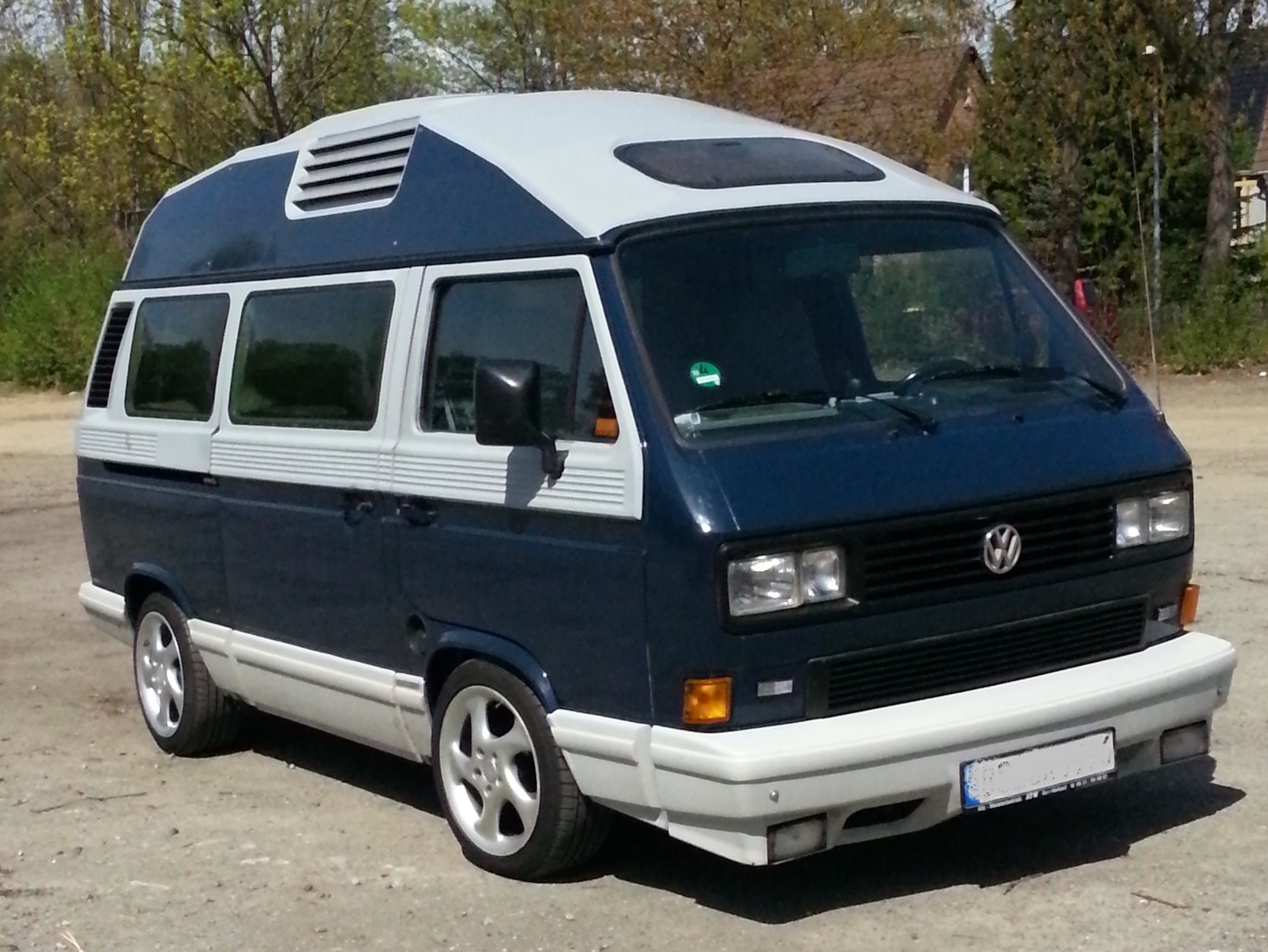 T3 Dehler Profi Haribus 2